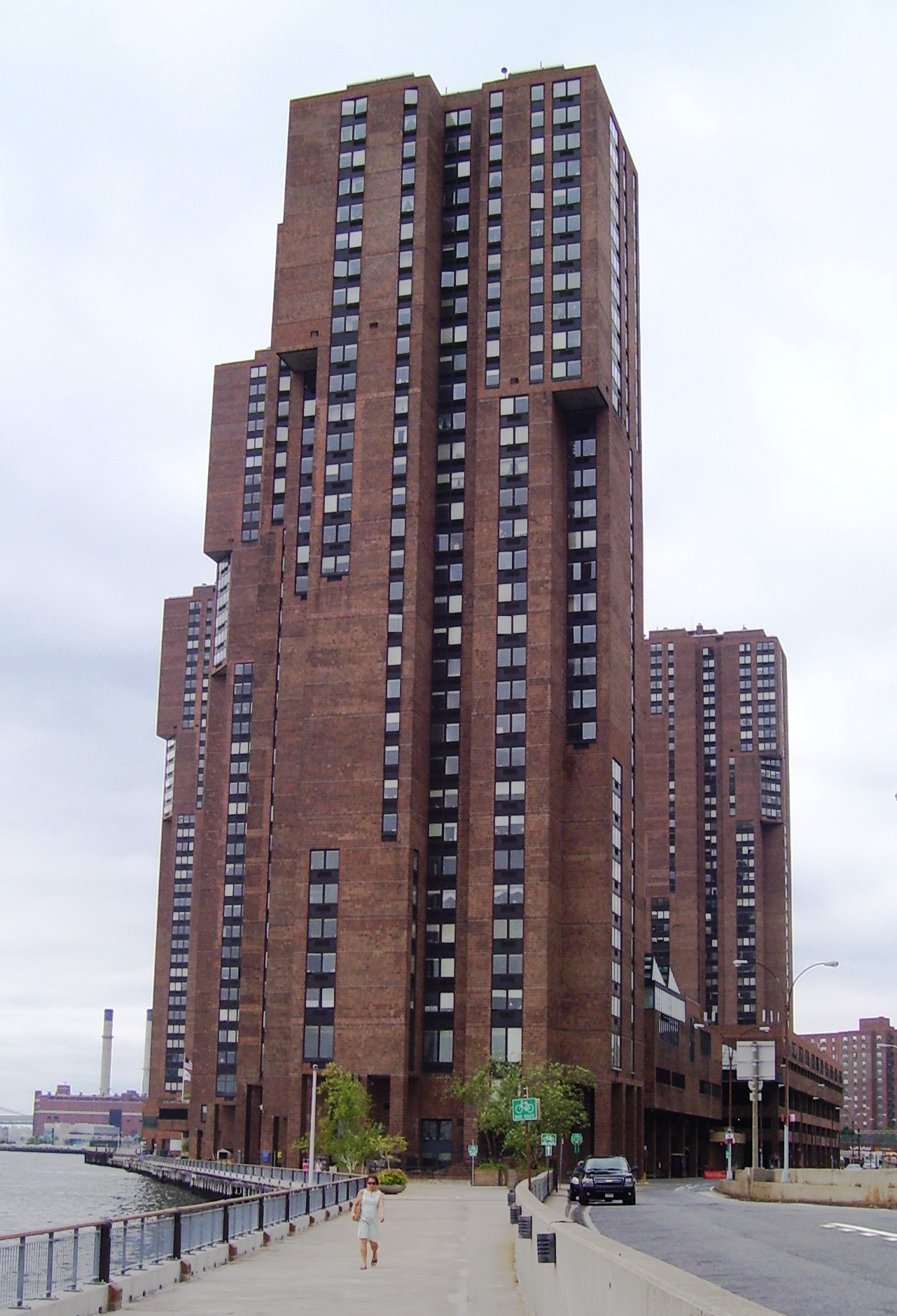 Waterside Plaza apartment complex on the East River in Kips Bay, Manhattan, New York City, seen from the north (uptown).